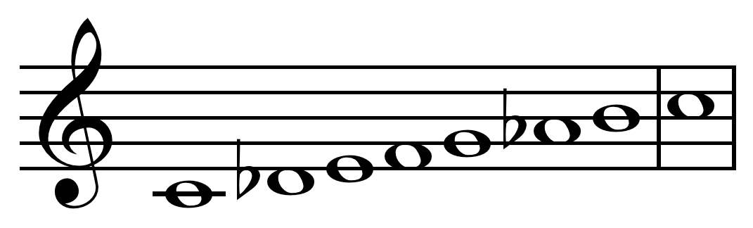 Double harmonic scale on C.